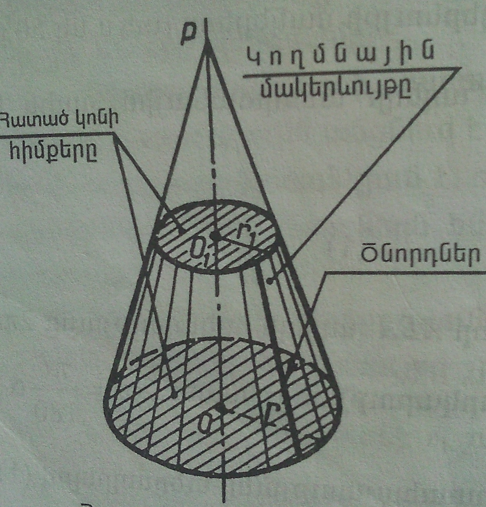 Հատած կոն